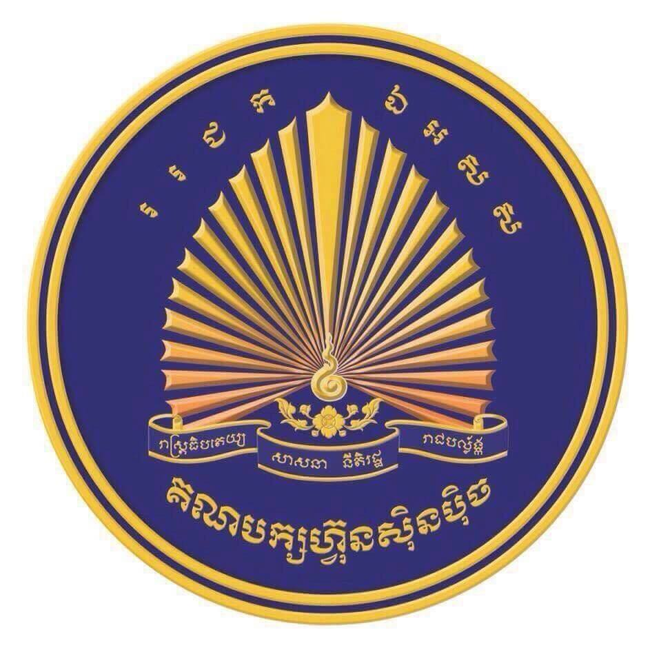 FUNCINPEC logo, 2015-present